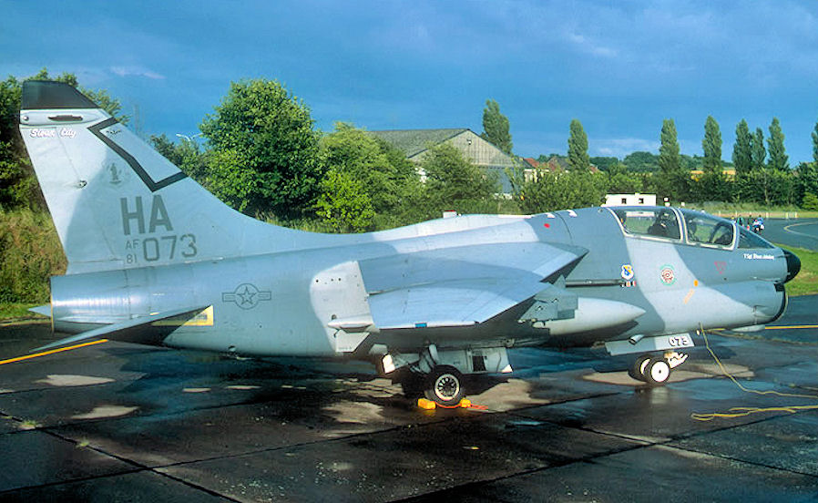 174th Tactical Fighter Squadron A-7K 81-1073 1983: Delivered to 174th Tactical Fighter Squadron. OH Air National Guard, Des Moines Air National Guard Base (c/n K-026) Struck off charge, 1992. Was placed on static display at Iowa Gold Star Military Museum, Johnson, Iowa